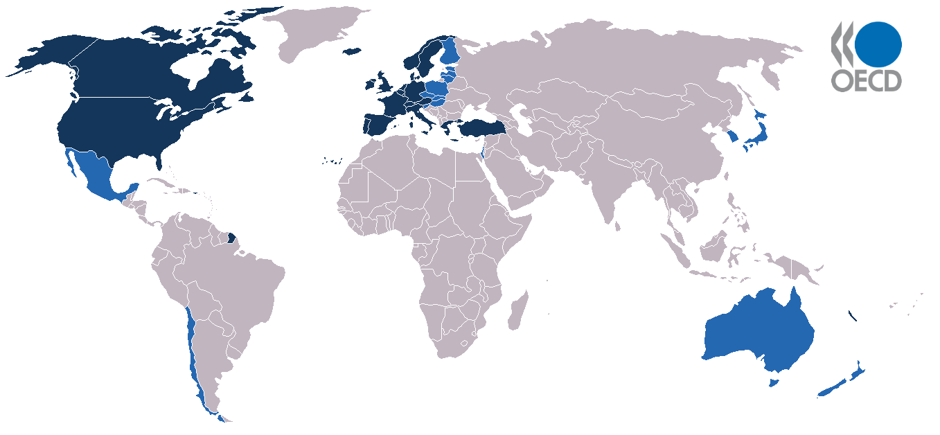 OECD member states (as of 2006)